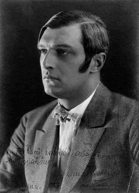 The image of Austrian opera intendant and conductor Clemens Heinrich Krauss (1893-1954)